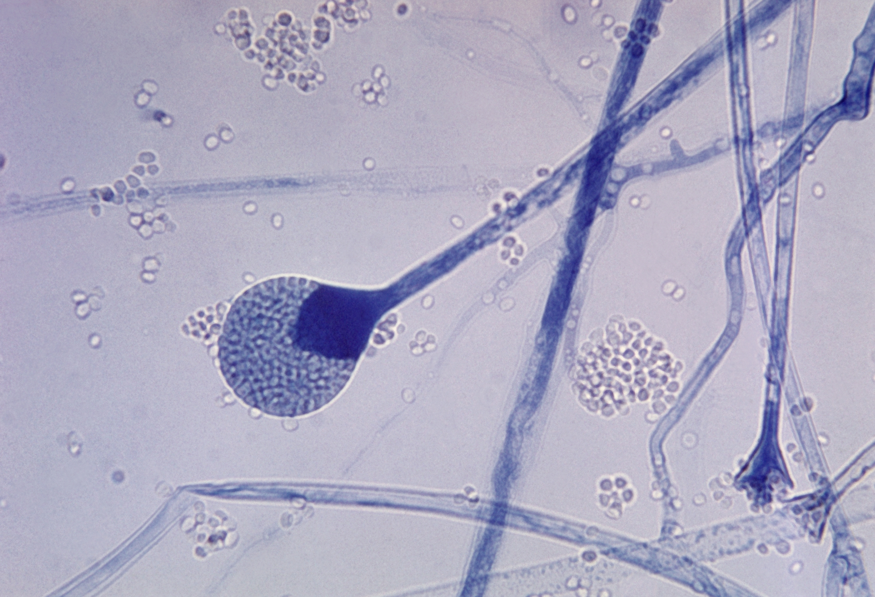 This photomicrograph reveals a mature sporangium of a Absidia sp. fungus. Mucor is a common indoor mold, and is among the fungi that cause the group of infections known as zygomycosis. The infection typically involves the rhino-facial-cranial area, lungs, GI tract, skin, or less commonly other organ systems.